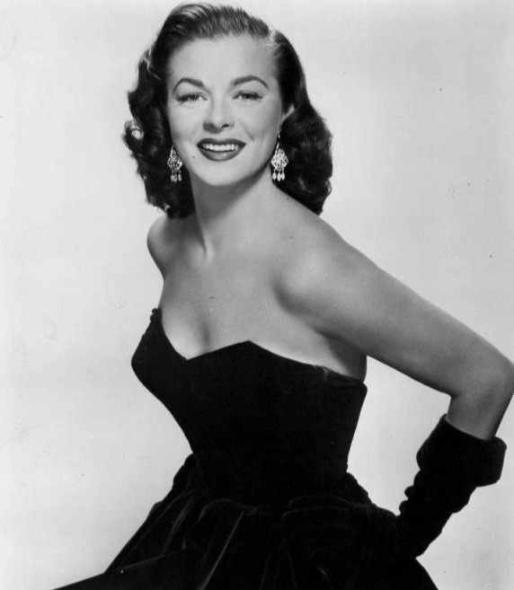 Photo of actress Marguerite Chapman from the televisin program City Detective.